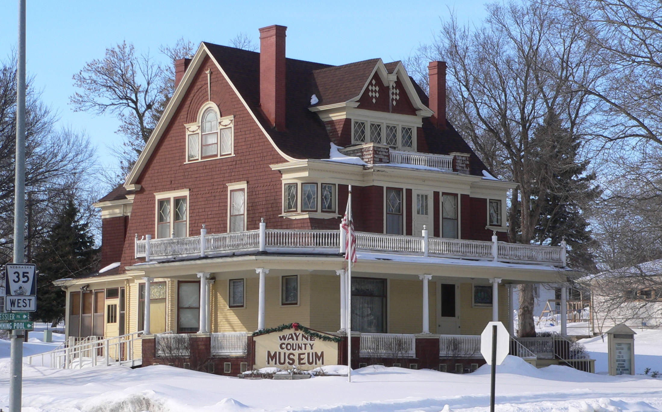 Dr. W.C. Wightman House in Wayne, Nebraska; seen from the southeast. The Shingle Style house was built in 1900. It currently houses the Wayne County Museum. The building is listed in the National Register of Historic Places.